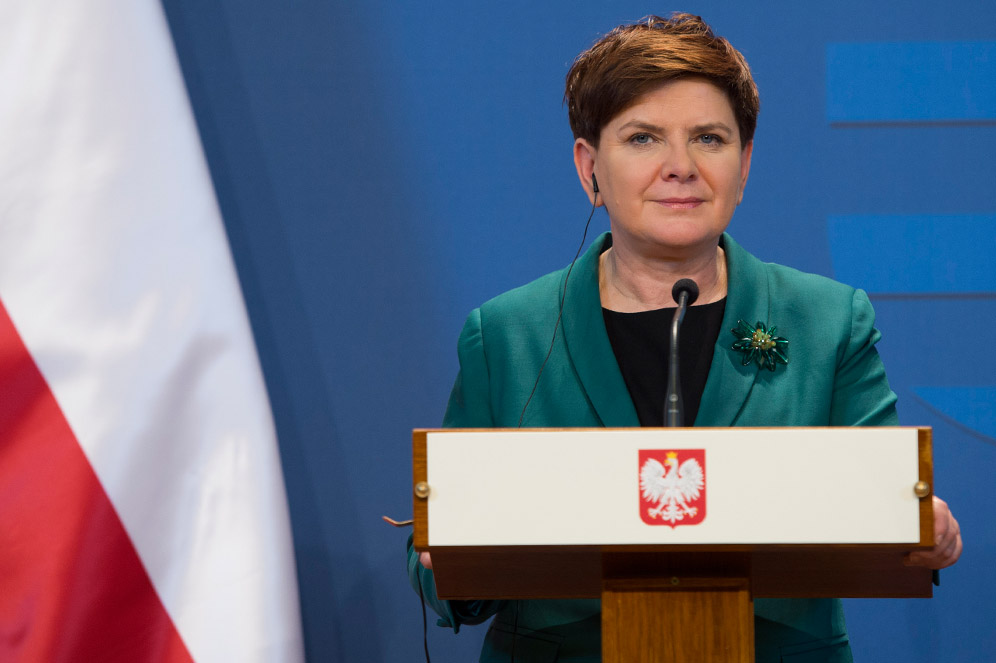 Polish Prime Minister Beata Szydło's official visit to Hungary on 8 February 2016.